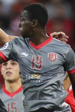 Almoez Ali